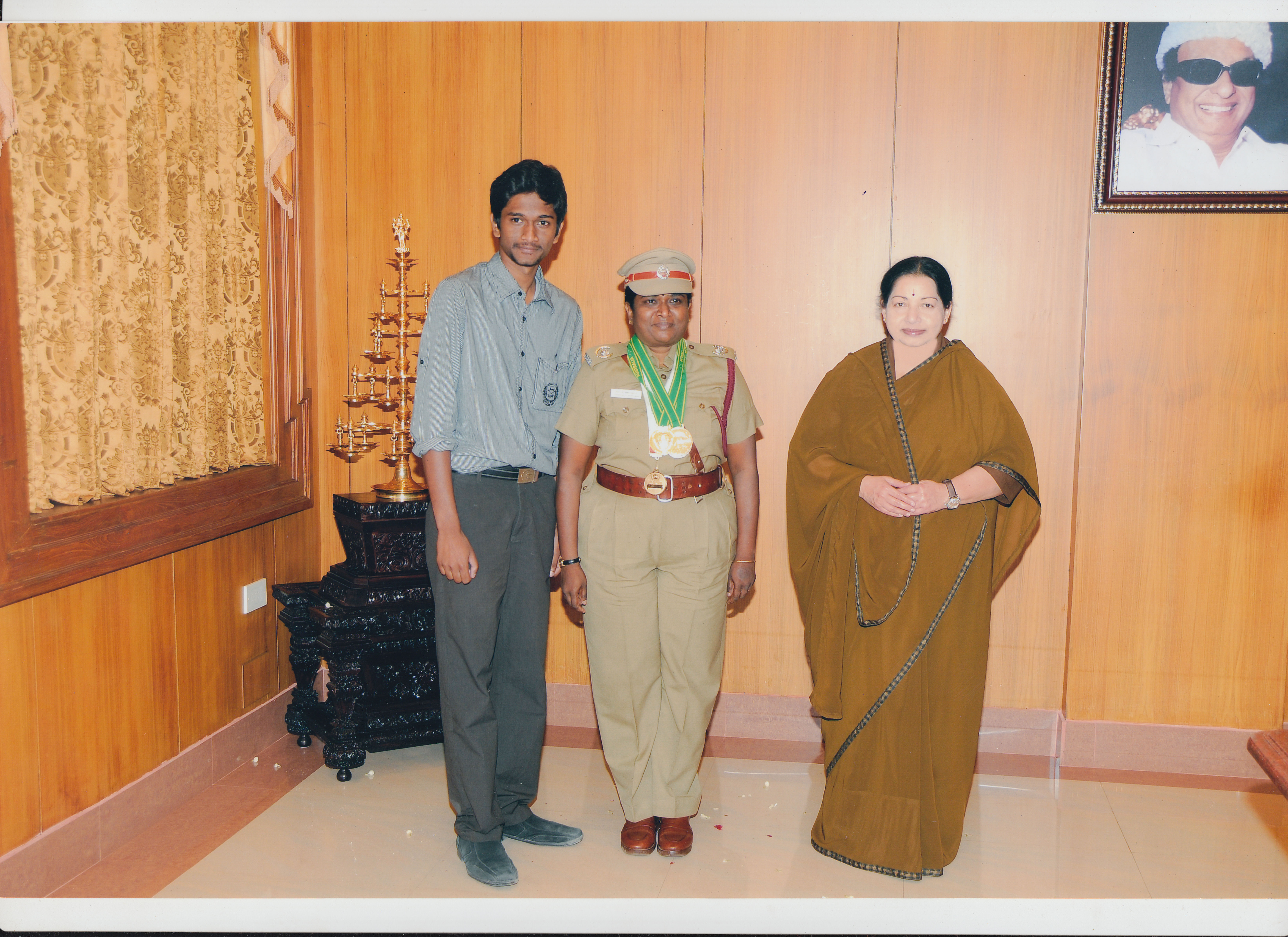 Won Gold Medal in World Fire and Police game